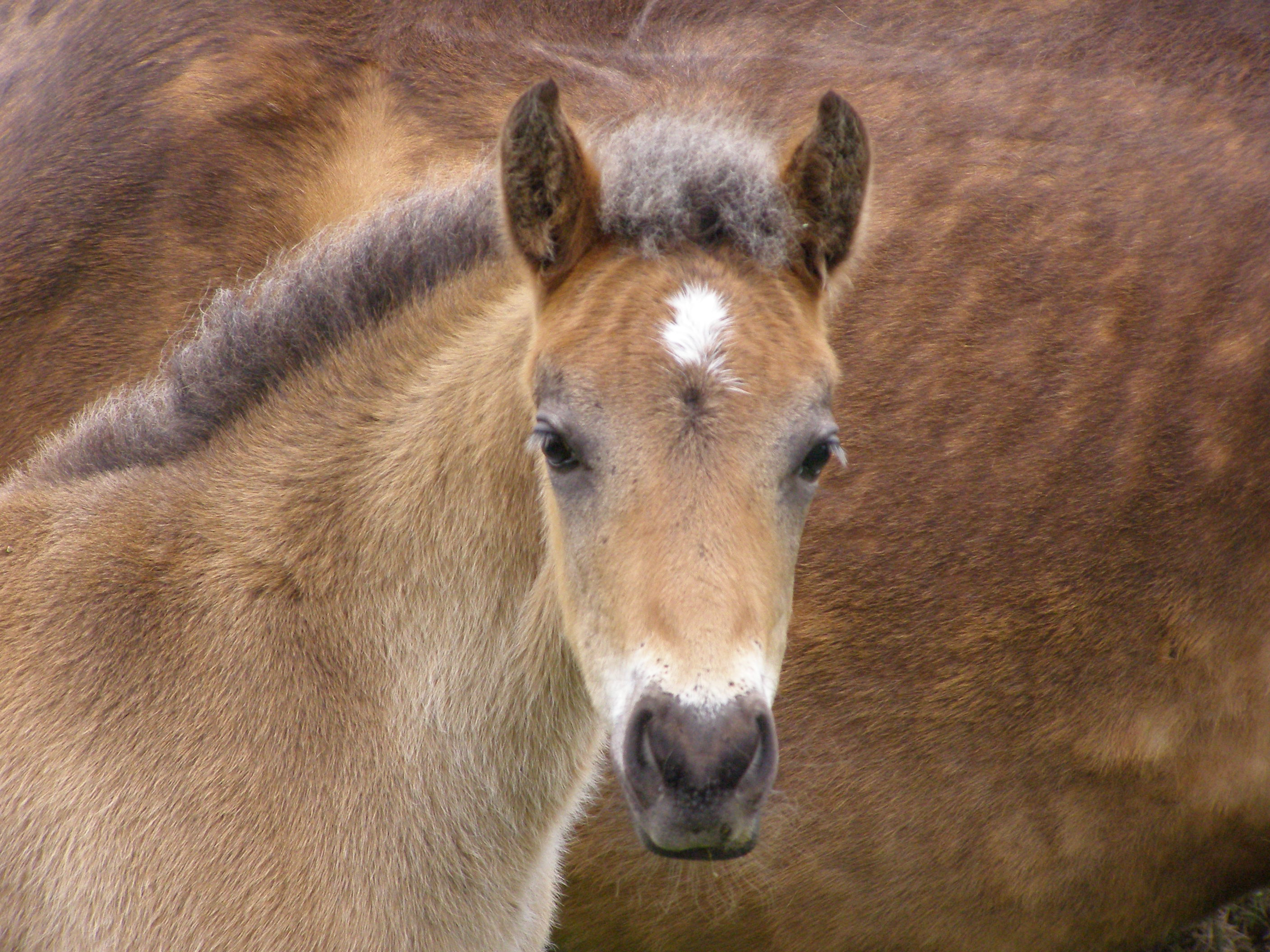 A young foal standing next to its mother on Butts Lawn.